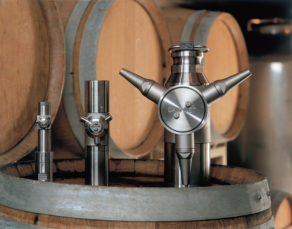 Image depicts Gamajet automated tank cleaning machines